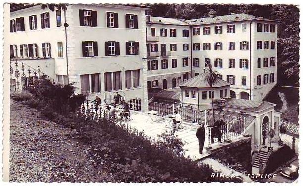 Postcard of Rimske Toplice